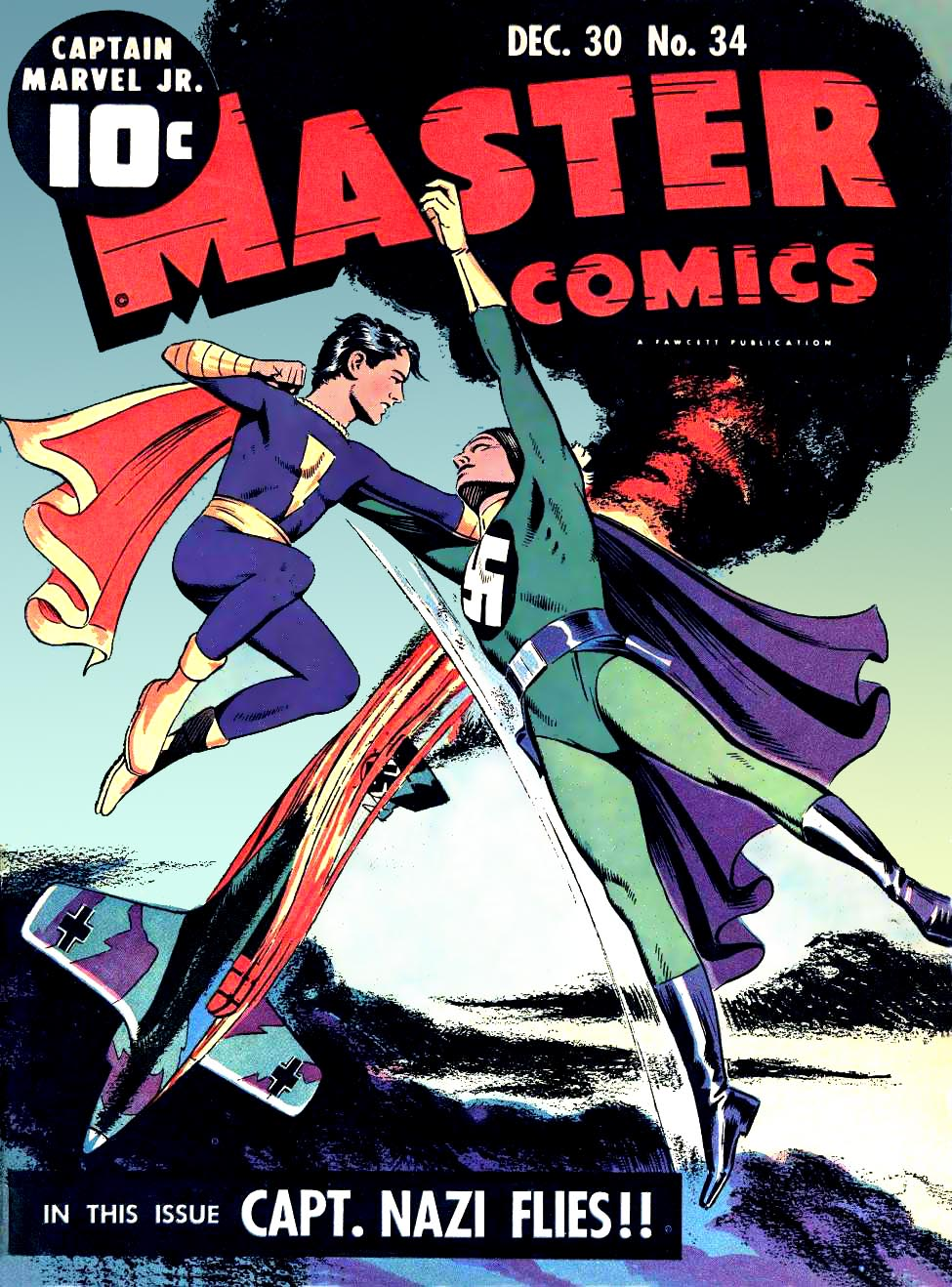 Cover of Fawcett Publications' Master Comics, number 34, December 1942. Artwork by Mac Rayboy; image is in the public domain due to lapsed copyright.